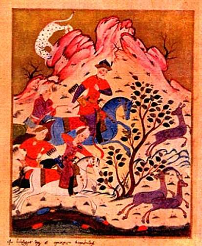 King Rostevan and Avtandil go hunting. A miniature by unknown painter from the 1646 manuscript of The Knight in the Panther's Skin.